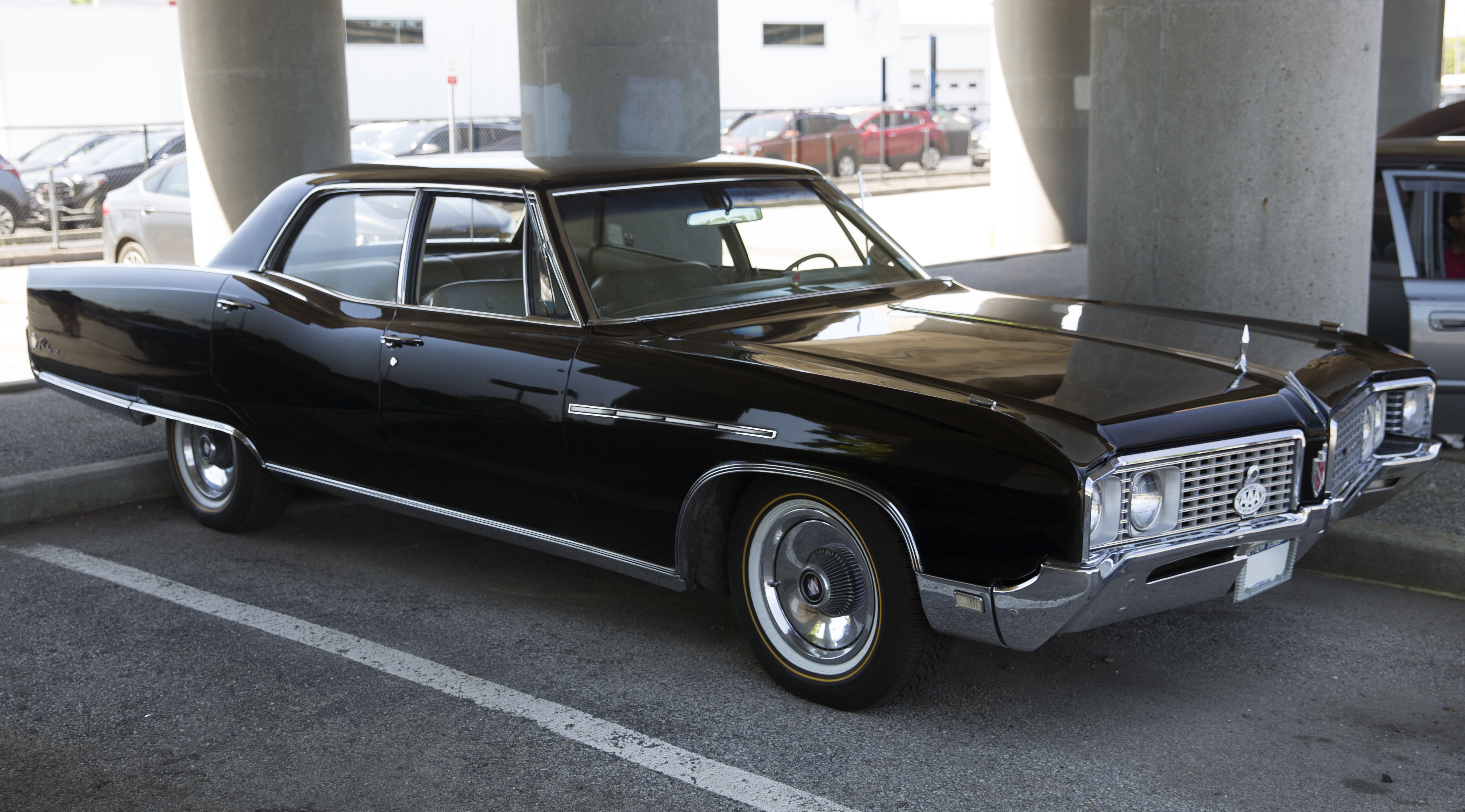 A 1968 Buick Electra 225 Custom four-door (pillared) sedan in Wantagh, Long Island, NY. Assembled in Flint, MI.